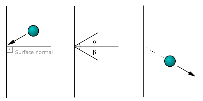 Deflection